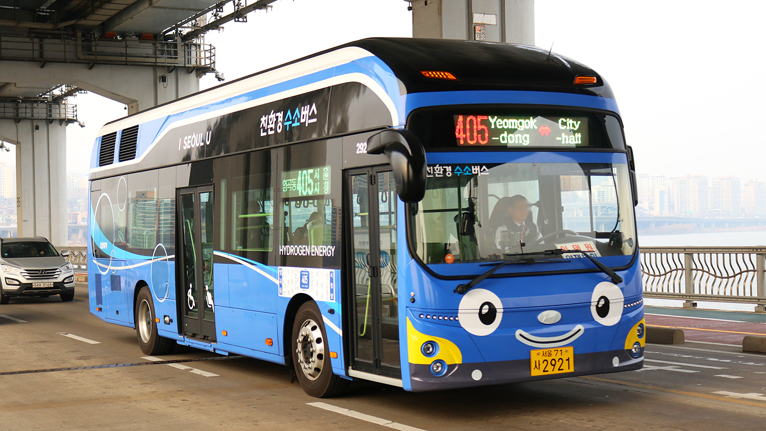 A Hydrogen fuel Hyundai ElecCity has been seen on route 405 at Jamsu Bridge